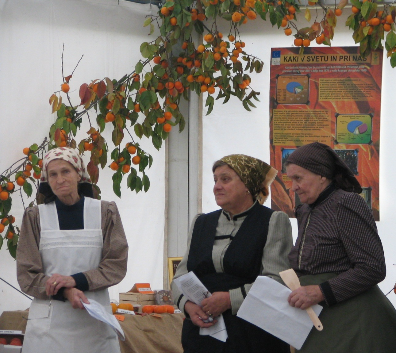 Scene in November 2005 at the annual persimmon festival in Strunjan, Slovenia